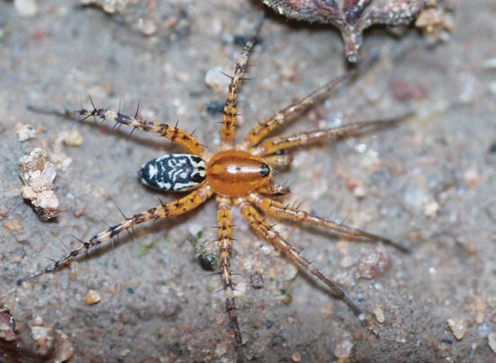 Copa flavoplumosa male from Wildlives Game Farm, Zambia.